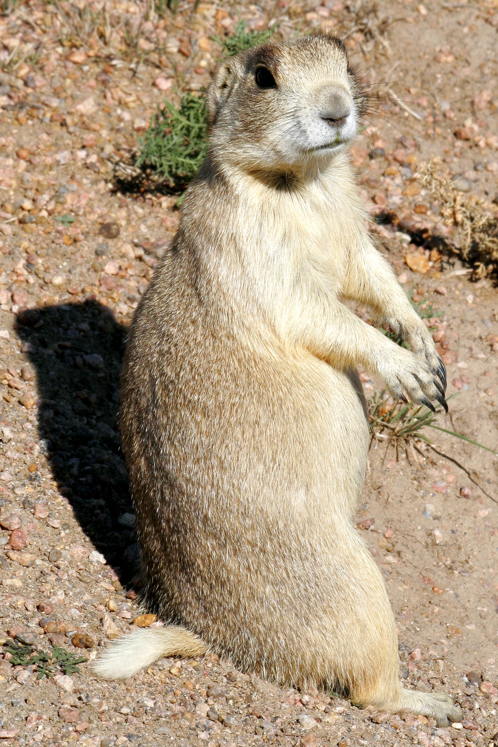 A White-Tailed Prairie dog displaying identifying features of dark eye patches and white tail. Wild specimen. Photograph taken at Hutton Lake Nat'l Wildlife Preserve, Wyoming.